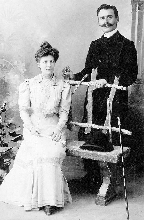 Ioanna Xanthidou and Nikolaos Manos.